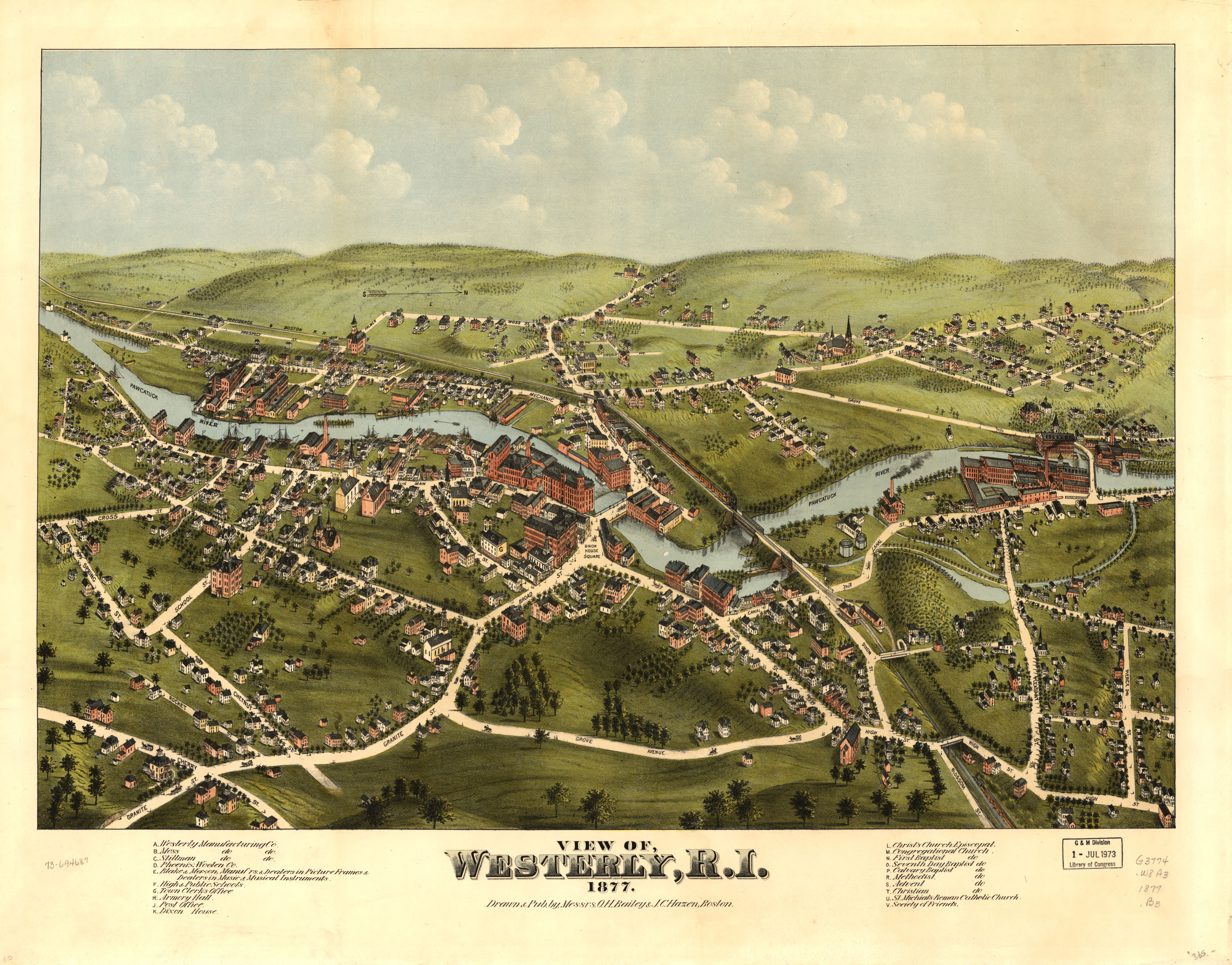 Perspective map not drawn to scale. Bird's-eye-view. LC Panoramic maps (2nd ed.), 881.1 Available also through the Library of Congress Web site as a raster image. Indexed for points of interest. AACR2